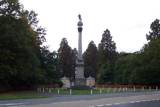 The Wellington Memorial. at the entrance to Stratfield Saye Park on the A33 at Heckfield Heath.